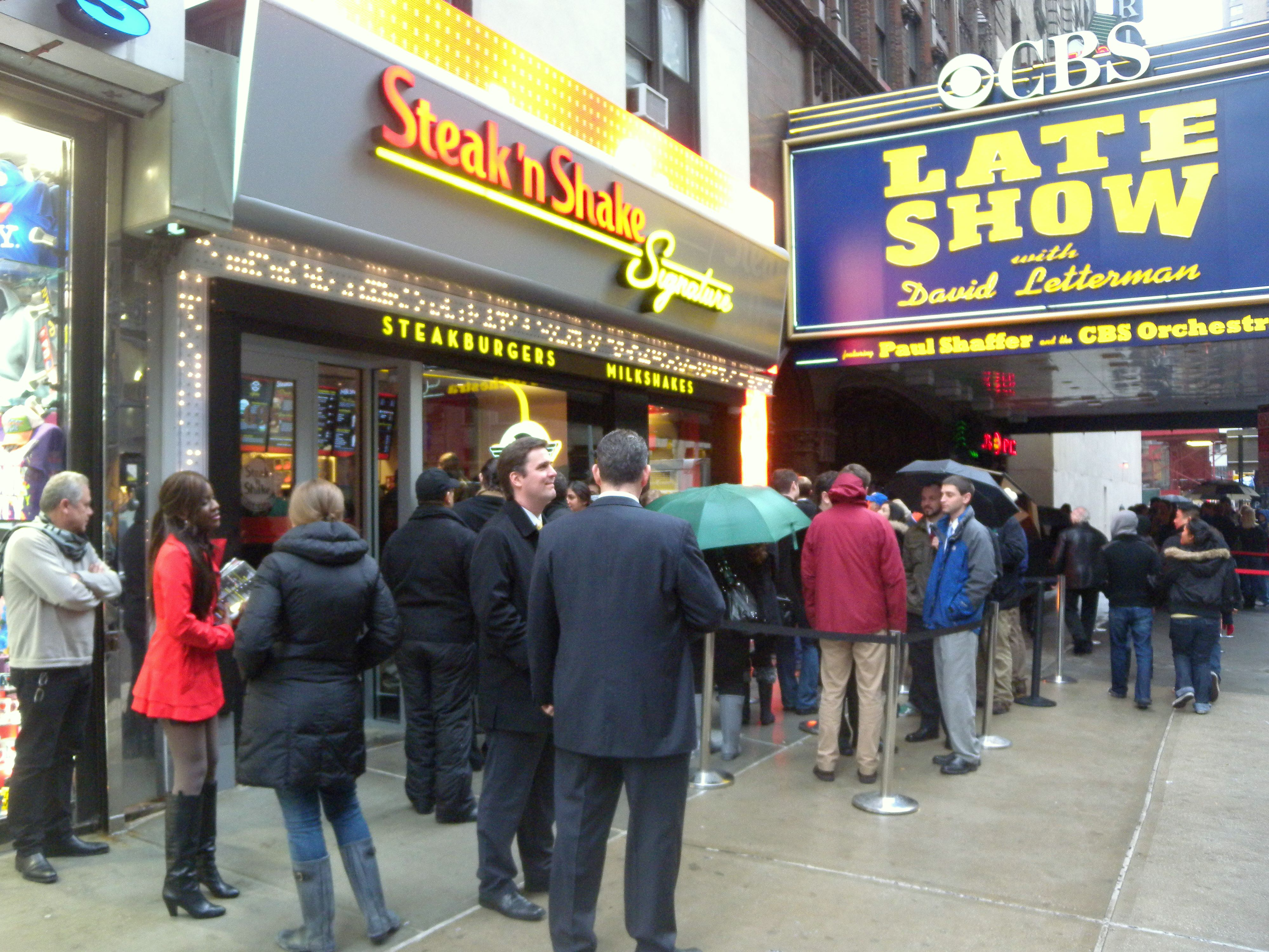 Looking north at Grand Opening of SnS branch next to Sullivan Theater on a rainy midday. Young lady in red on left is handing out fliers for the restaurant.